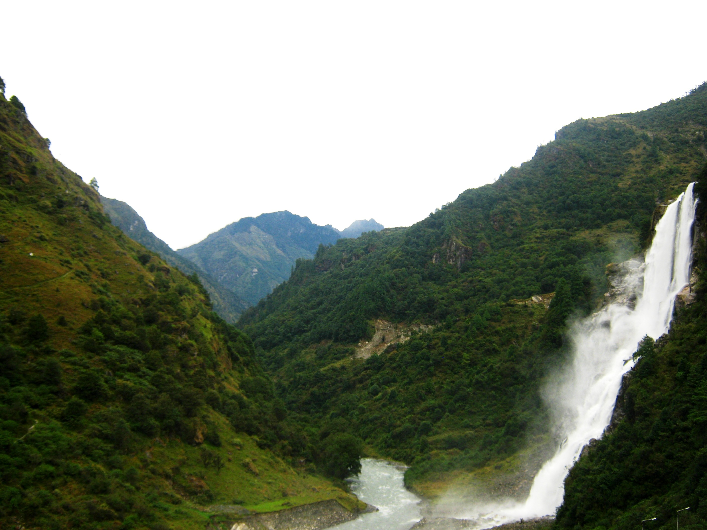 Nuranang Chu (river) culminates with Nuranang Falls flowing in Tawang Chu